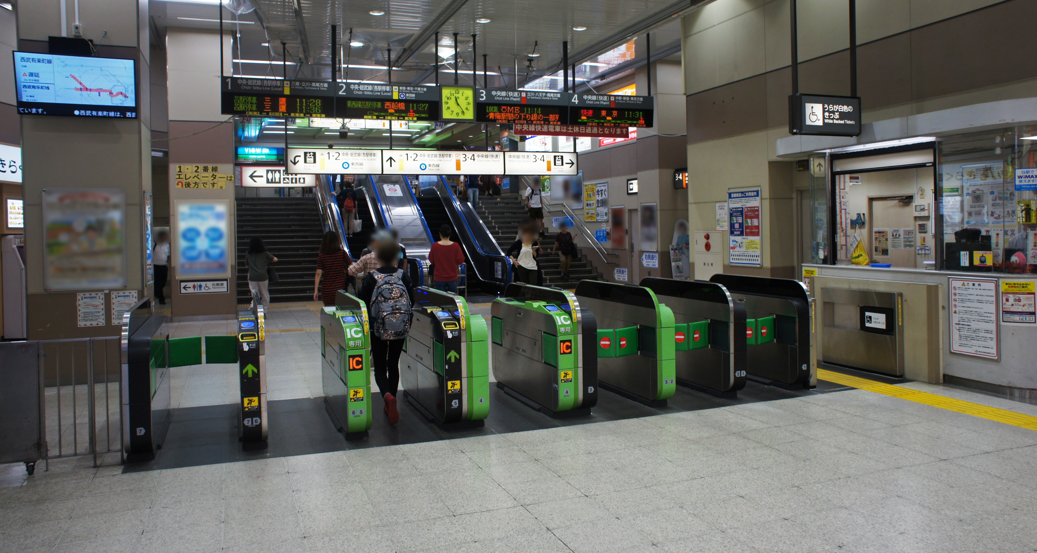 Gates of JR Chuo-Main-Line Nishi-Ogikubo Station